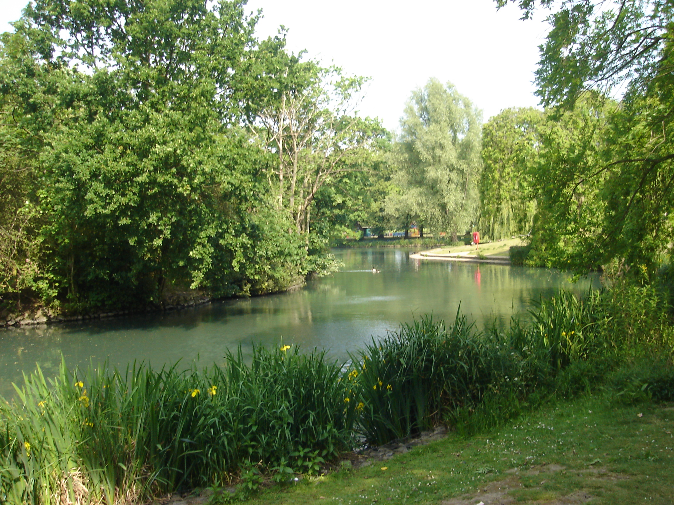 Picture of Pymmes Park